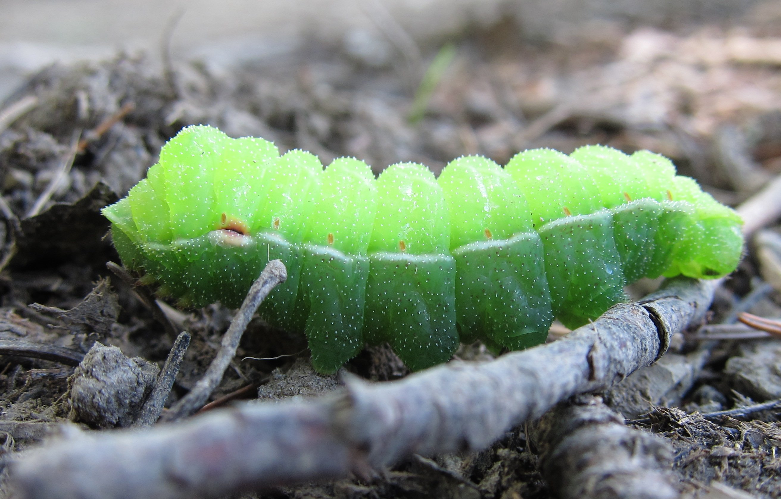 4th instar of the larva of the Tau Emperor (Aglia Tau)